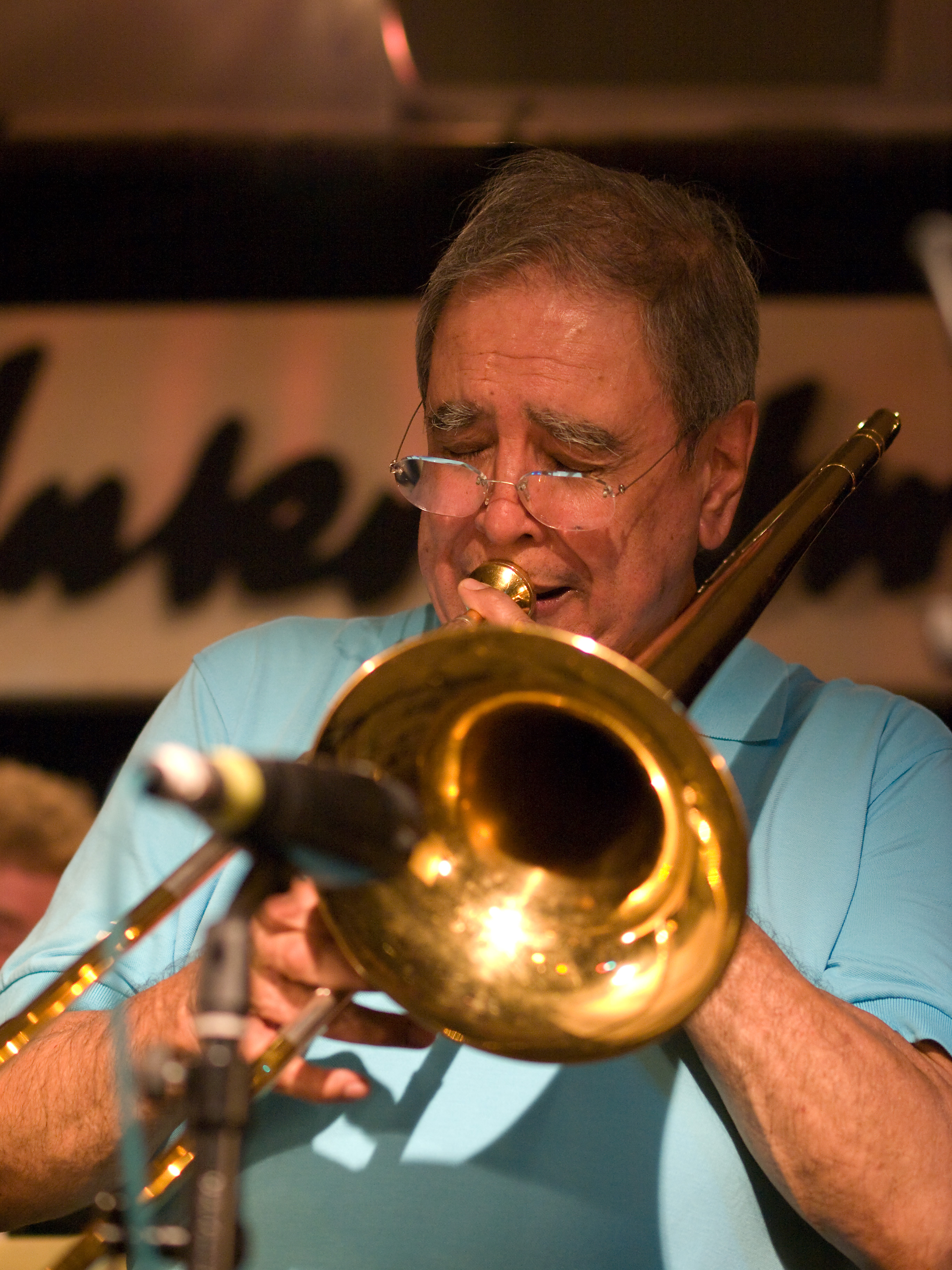 Jose Joe Gallardo, jazz trombonist, picture taken in Jazz club "Unterfahrt" in Munich/Germany